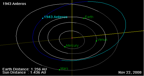 1943 Anteros orbit, and his position on 22 Nov 2009 (NASA Orbit Viewer applet)